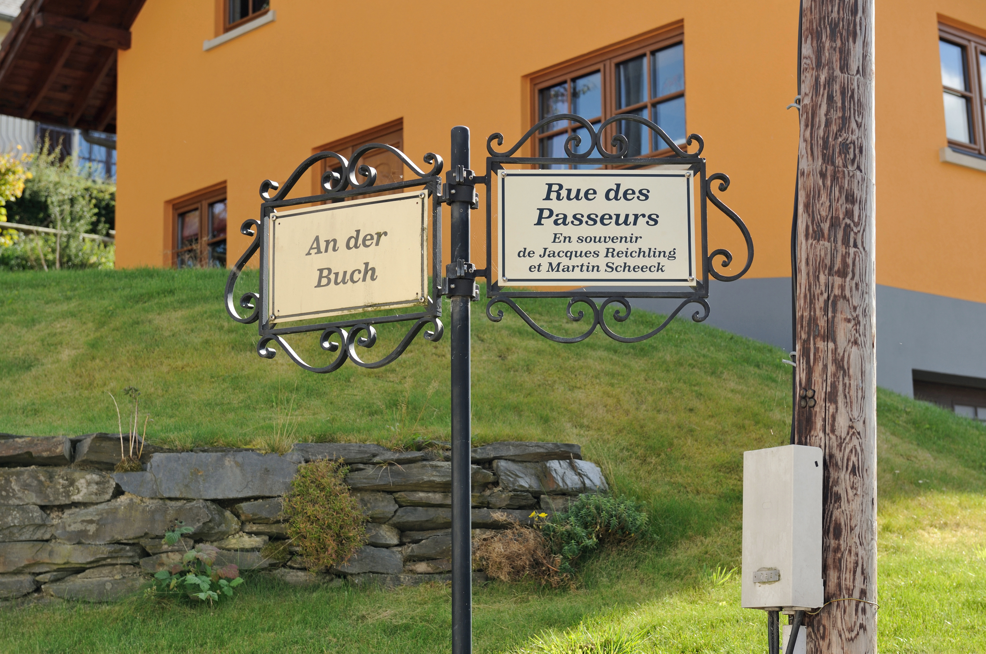 Bilsdorf, Luxembourg: Street sign dedicated to Jacques Reichling and Martin Scheeck, who, in December 1944, helped 46 American GIs to escape the German troops during the Battle of the Bulge (World War II).